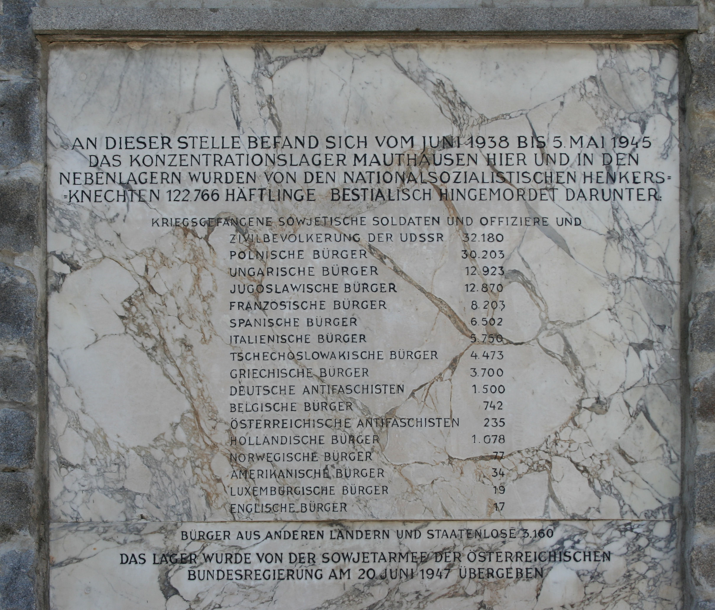 This tablet is installed on the outer Mauthausen camp wall, to the right of the camp gates. I am not sure who put the tablet up.